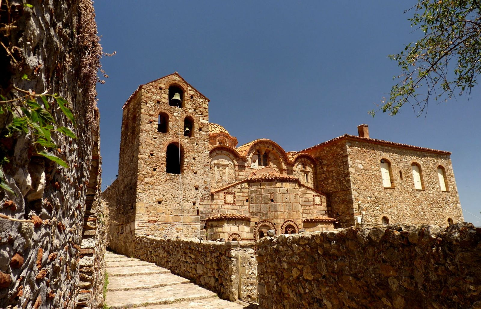 Mystras (Greek: Μυστράς, Μυζηθράς, Myzithras in the Chronicle of the Morea) is a fortified town and a former municipality in Laconia, Peloponnese, Greece. You can use the images for free. But a link to - I would be happy :)